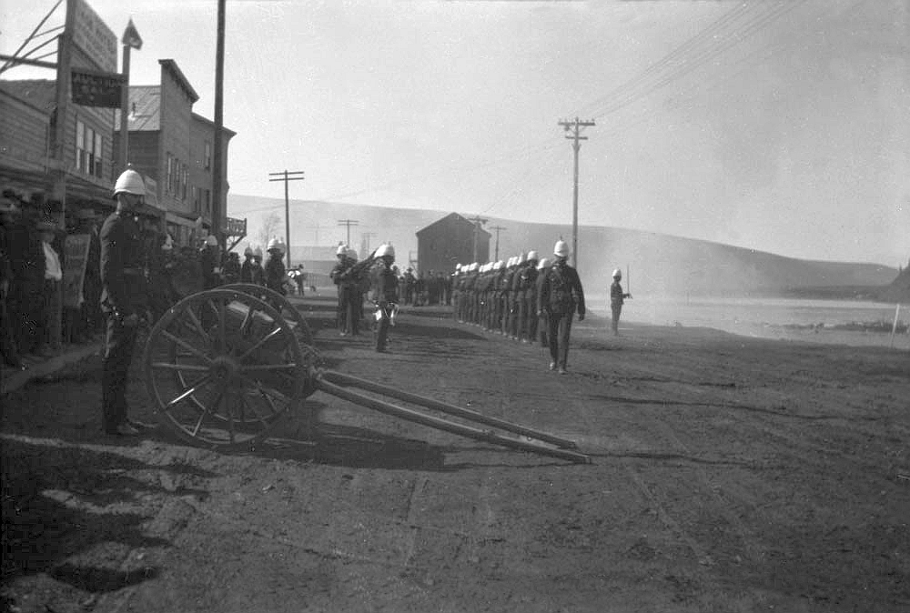 Title / Titre : Yukon Field Force garrison, Dawson, Yukon / Creator(s) / Créateur(s) : Henry Joseph Woodside Date(s) : May 24, 1900 / 24 mai 1900 Reference No. / Numéro de référence : MIKAN 3301571 Location / Lieu : Dawson, Yukon, Canada Credit / Mention de source : Henry Joseph Woodside. Library and Archives Canada, PA-017107 / Henry Joseph Woodside. Bibliothèque et Archives Canada, PA-017107